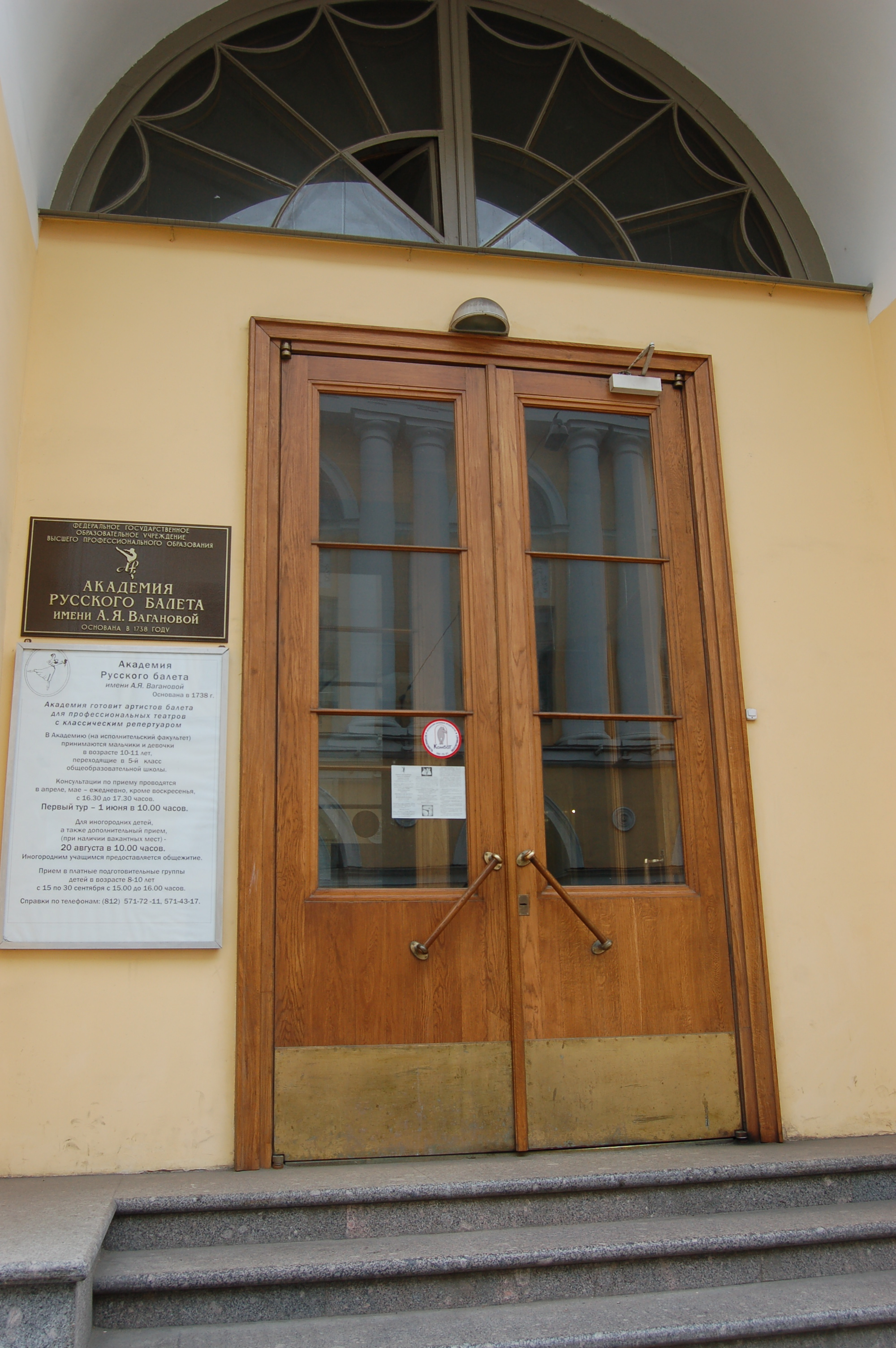 Vaganova Academy of Russian Ballet, Saint Petersburg, Russia, main entrance.